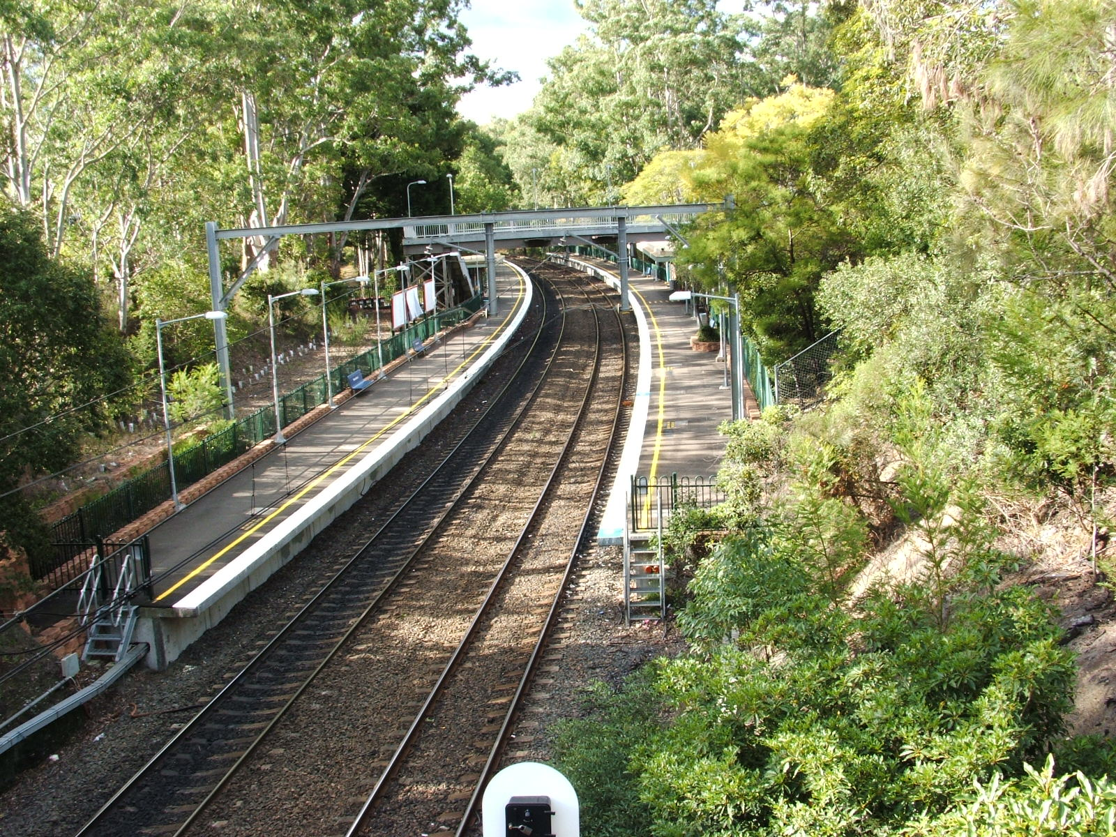 Normanhurst railway station, Sydney